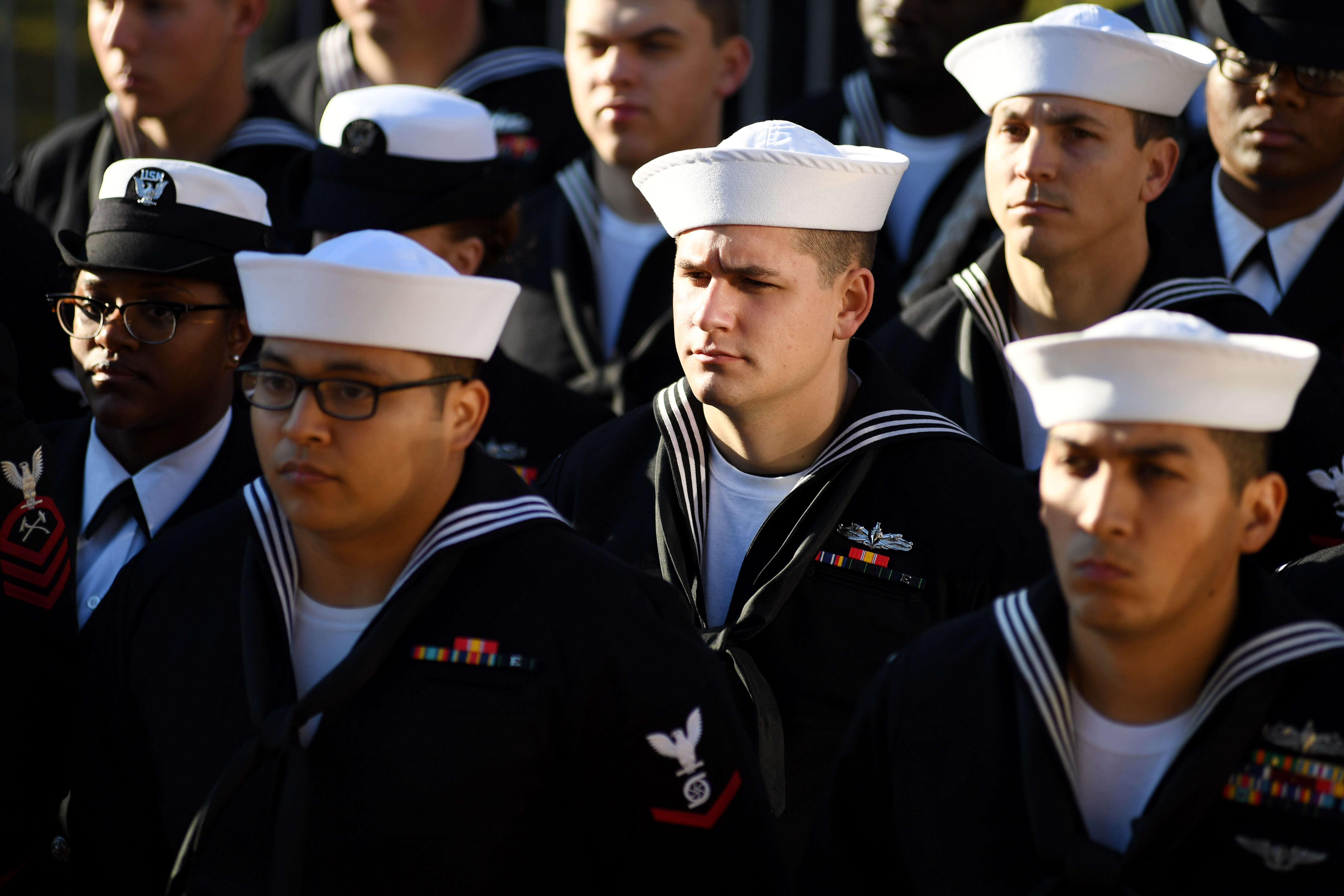 170120-N-XT273-114 VILLEFRANCHE SUR MER, France (Jan. 20, 2017) Sailors assigned to the guided-missile destroyer USS Carney (DDG 64) stand at attention during a ceremony at the Villefrance sur Mer War Memorial. U.S. Naval Forces Europe-Africa/U.S. 6th Fleet, headquartered in Naples, Italy, conducts the full spectrum of joint and naval operations, often in concert with joint, allied and interagency partners, in order to advance U.S. national interests and security and stability in Europe and Africa. (U.S. Navy photo by Mass Communication Specialist 1st Class Justin Stumberg/Released)